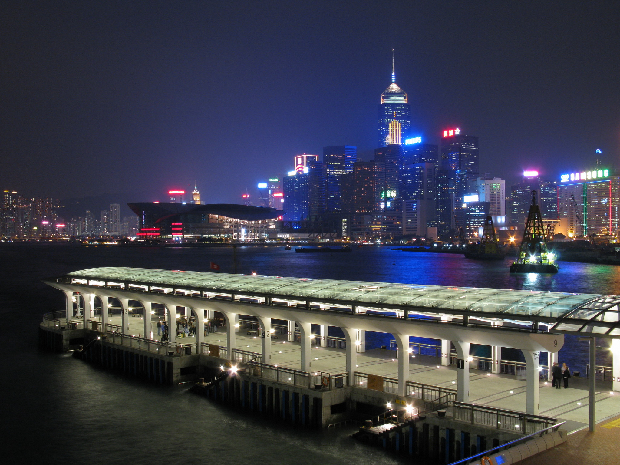 Night Scene of Pier 9, Central Piers, Hong Kong.